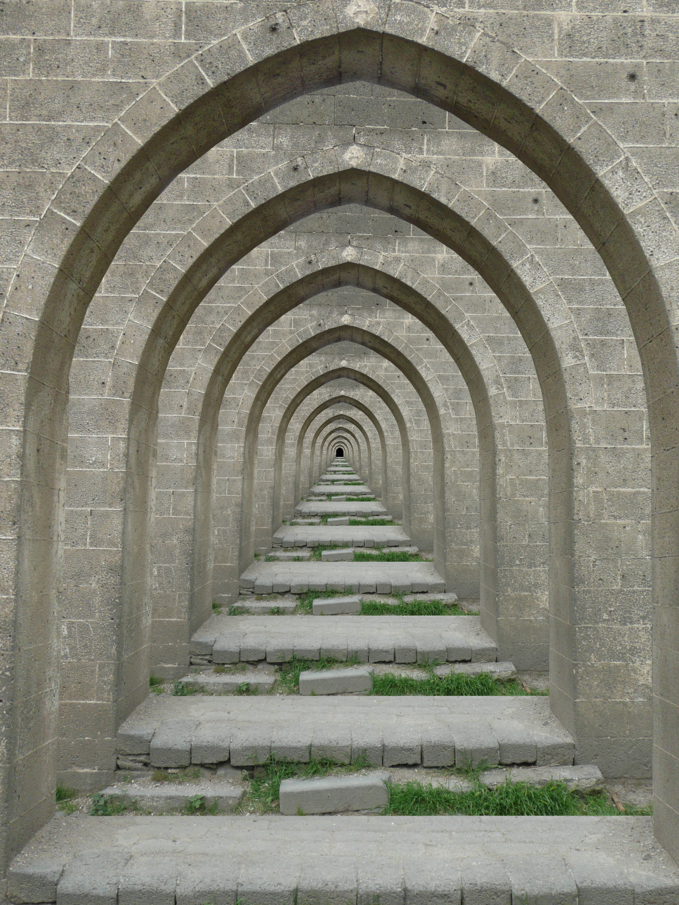 Photographs from Diyarbakir, Turkey Droste Effect This raster graphics image was created with GIMP.